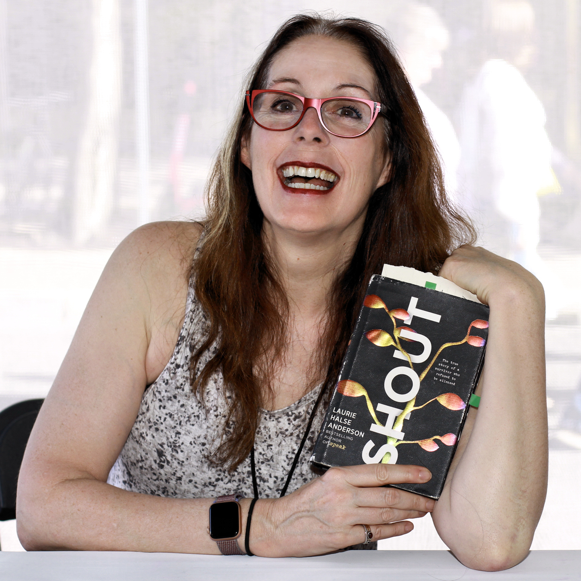 Author Laurie Halse Anderson at the 2019 Texas Book Festival in Austin, Texas, United States.